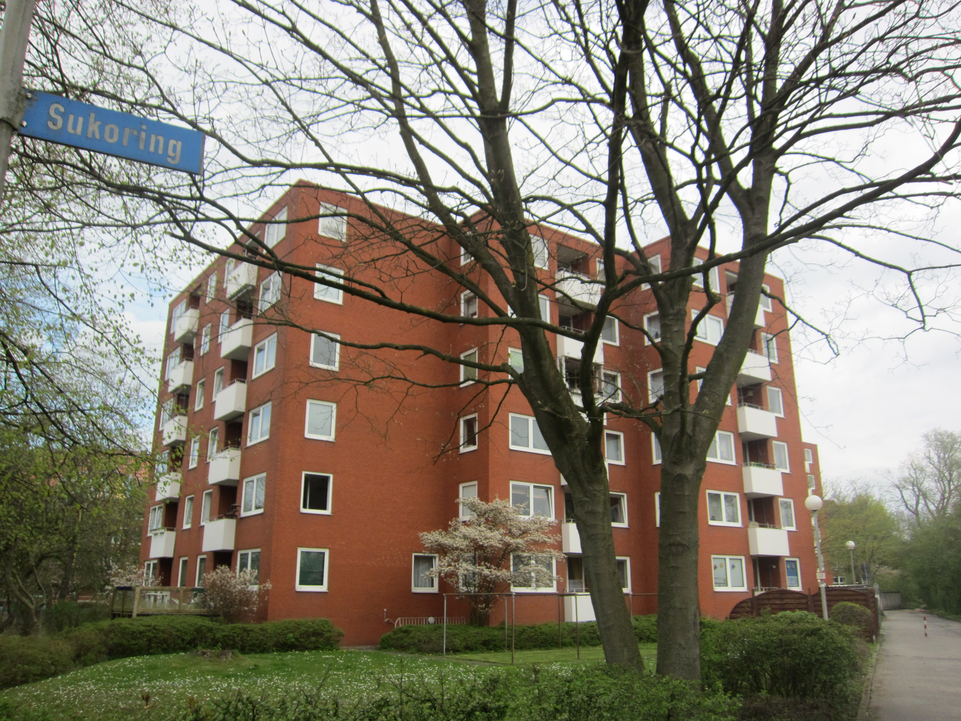 House "Sukoring 2" in Kiel-Suchsdorf